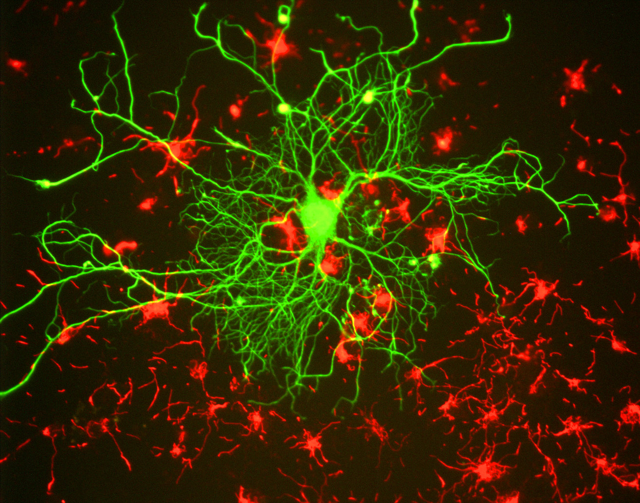 Cortical neuron stained with antibody to neurofilament subunit NF-L in green. In red are neuronal stem cells stained with antibody to alpha-internexin. Image created using antibodies from EnCor Biotechnology Inc.